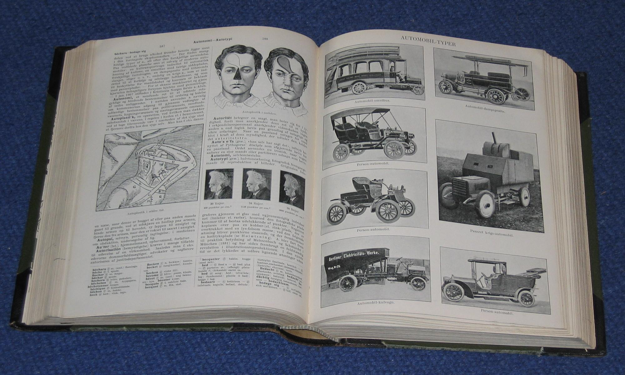 Sample contents: Article on automobiles